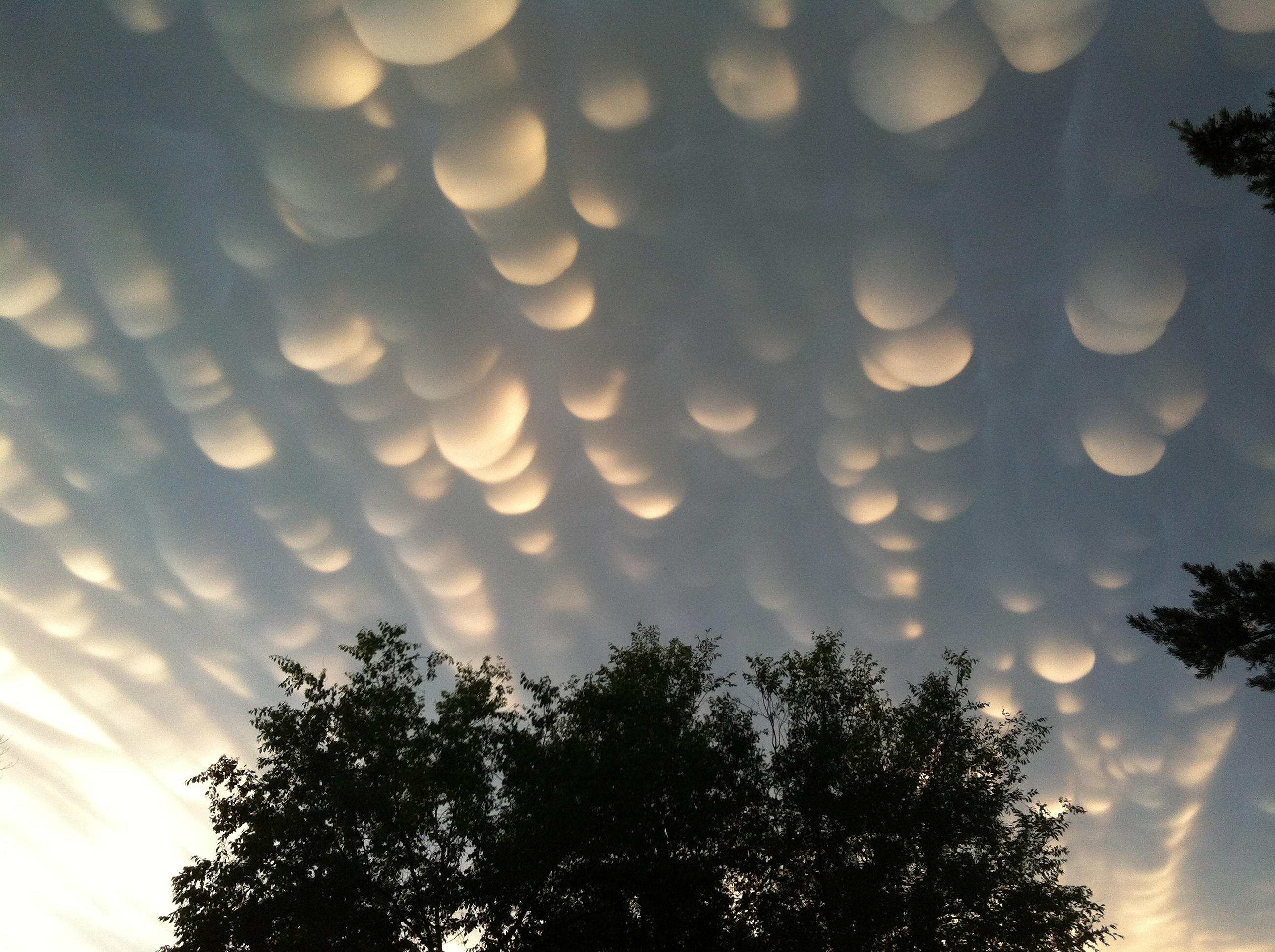 Formation of mammatus clouds over the city of Regina Saskatchewan on 2012-06-26 following a severe storm warning and tornado watch.